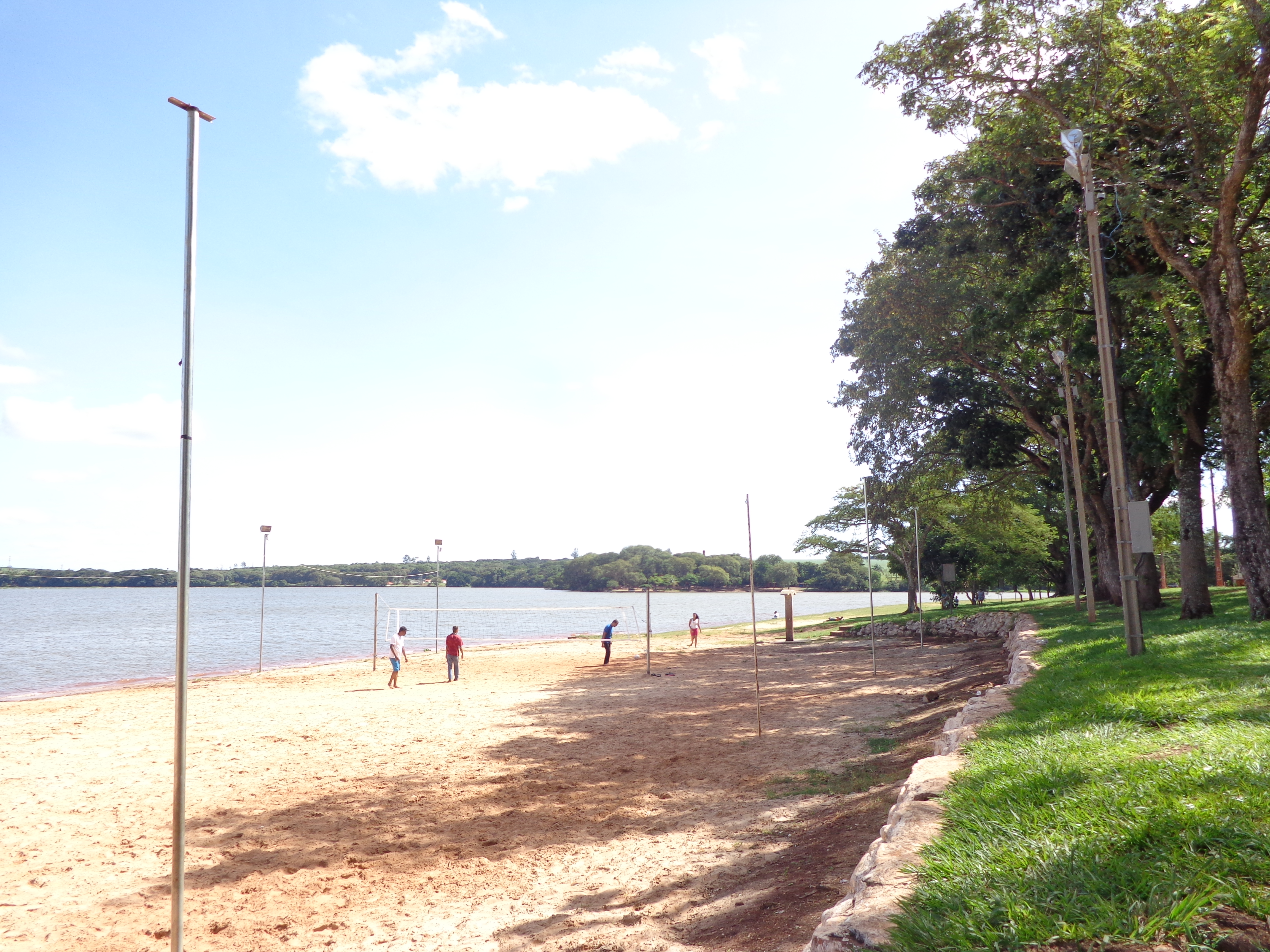 Salto Grande beach, affectionately called of "Prainha".